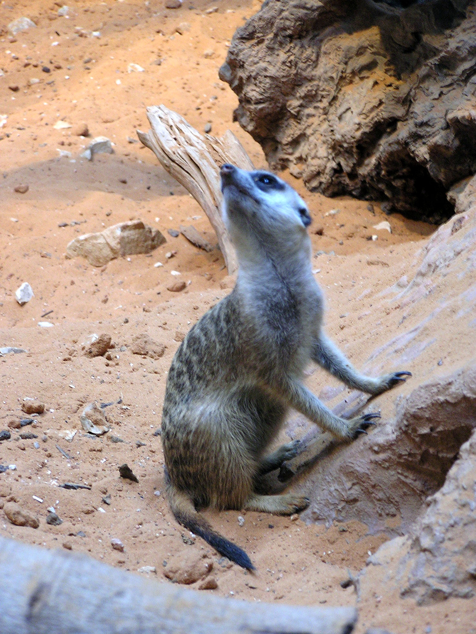 Meerkat in Jerusalem Biblical Zoo